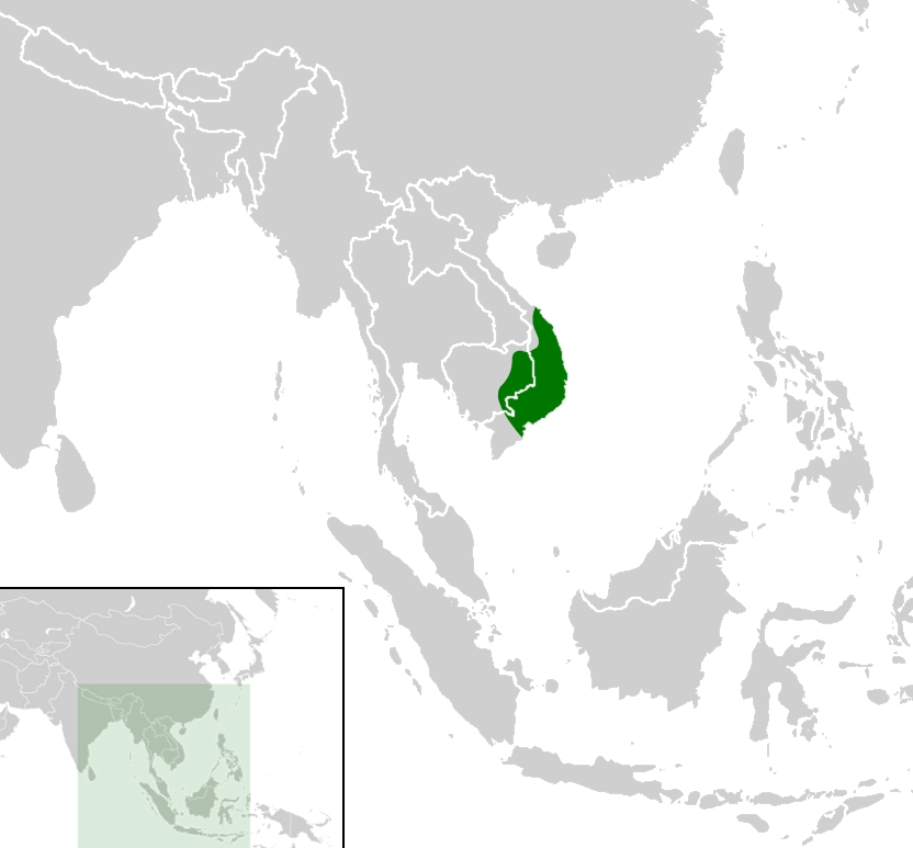 Cyclemys pulchristiata (Some authorities consider this species to be a junior synonym to or a subspecies of C. atripons. Found in Cambodia and Vietnam)